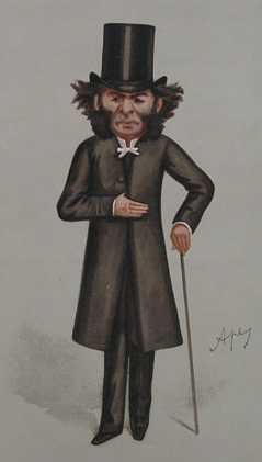 Caricature of Hugh Reginald Haweis (1838-1901). Caption read "The Parson, The Play and the Ballet".